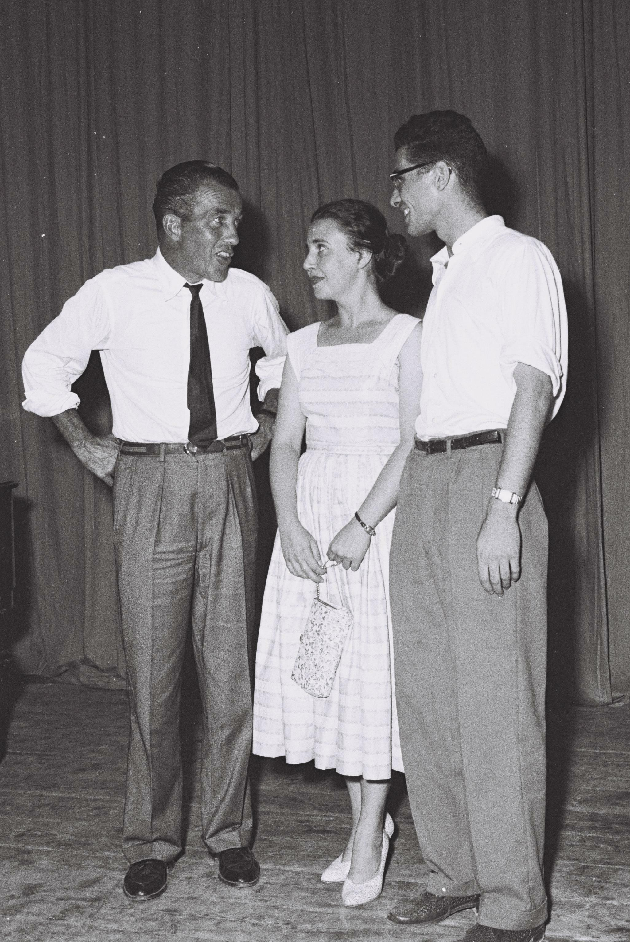 Ed Sullivan (L) with Israeli pianists Bracha Eden and Alexander Tamir (Wolkowsky)